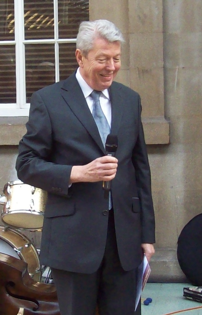 On 02/12/2011, the 26th. anniversary of the death of the poet; and exactly one year following the unveiling of the Larkin statue, The Philip Larkin Society unveiled five new roundels inscribed with extracts from his poetry. The roundels are set in the concourse of the Hull Paragon Station close to the Larkin statue and have been created by the statue's sculptor, Martin Jennings. Here the local MP is about to unveil one of the roudels.